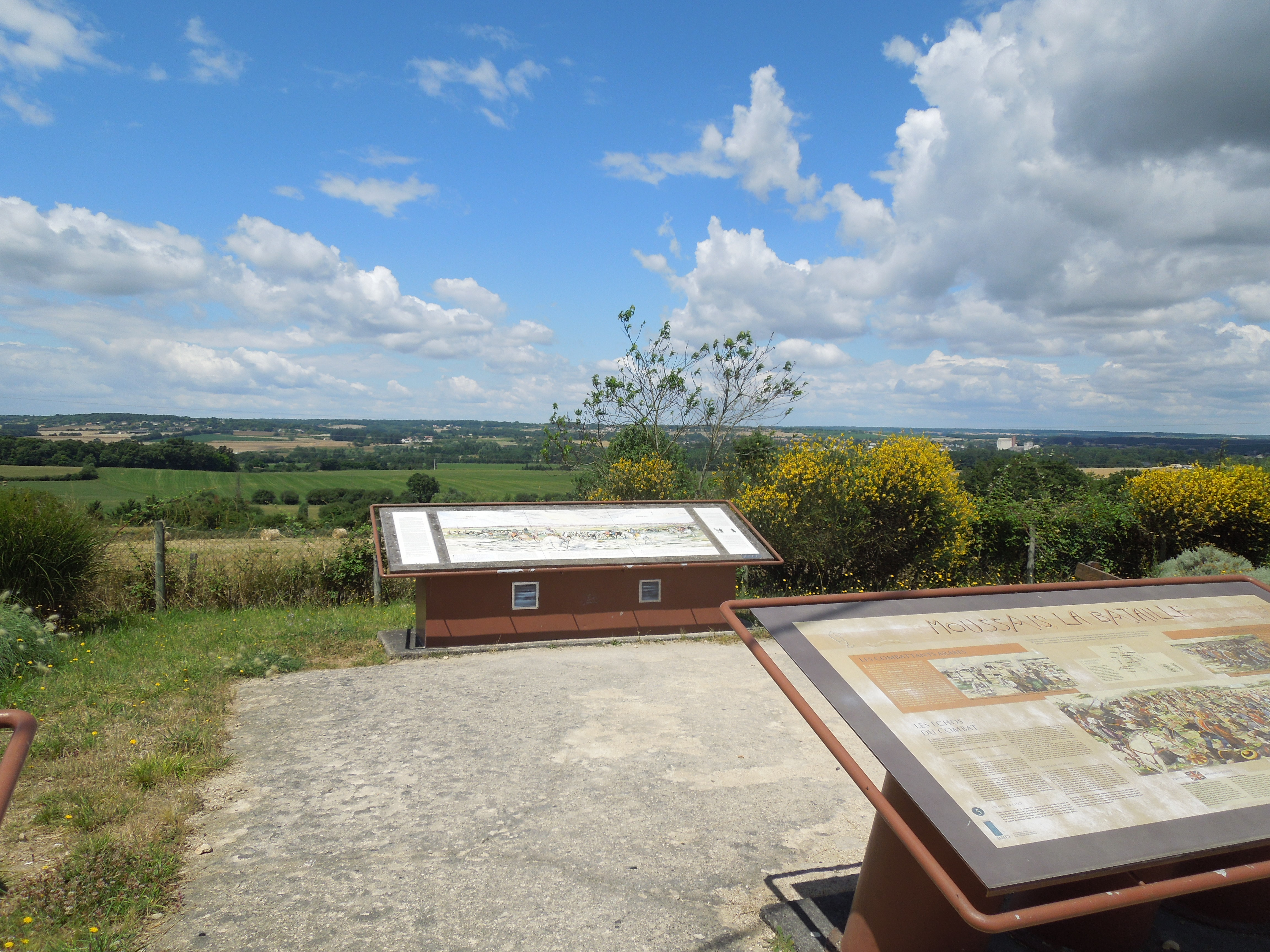 Battlefield memorial, near Poitiers, of the Battle of Tours (Battle of Poitiers) 732